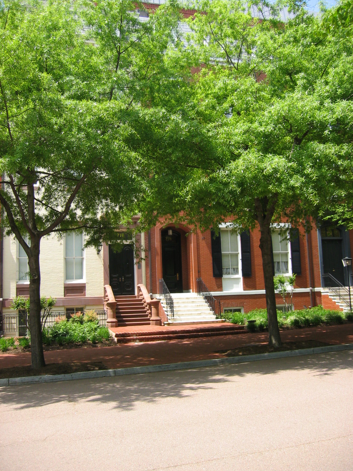 718 Jackson Place NW, Washington, D.C., (red building with white steps) the fourth and final headquarters for the Congress of Industrial Organizations, an important labor federation in the United States. As of 2008, the building is owned by the federal government of the United States, and houses small adjunct offices of the Executive Office of the President as well as meeting room and conference space.